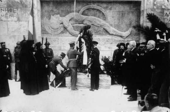 Inauguration of the Monument to the Unknown Soldier before the Greek parliament, Athens 1932. A Turkish military representative lays a wreath.